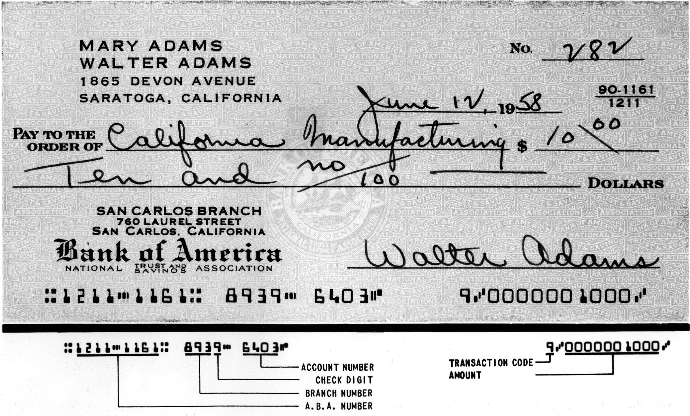 Early check demonstrating the use of Magnetic ink character recognition. Font similar to E-13B, but with a different "transit" glyph (possibly E-13A? [1])